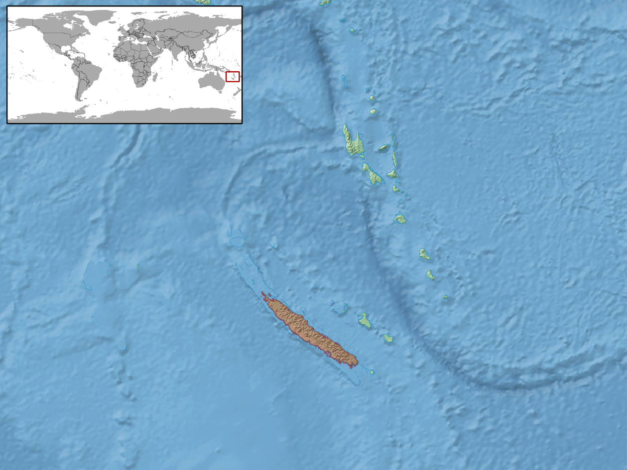 geographic distribution of Caledoniscincus festivus